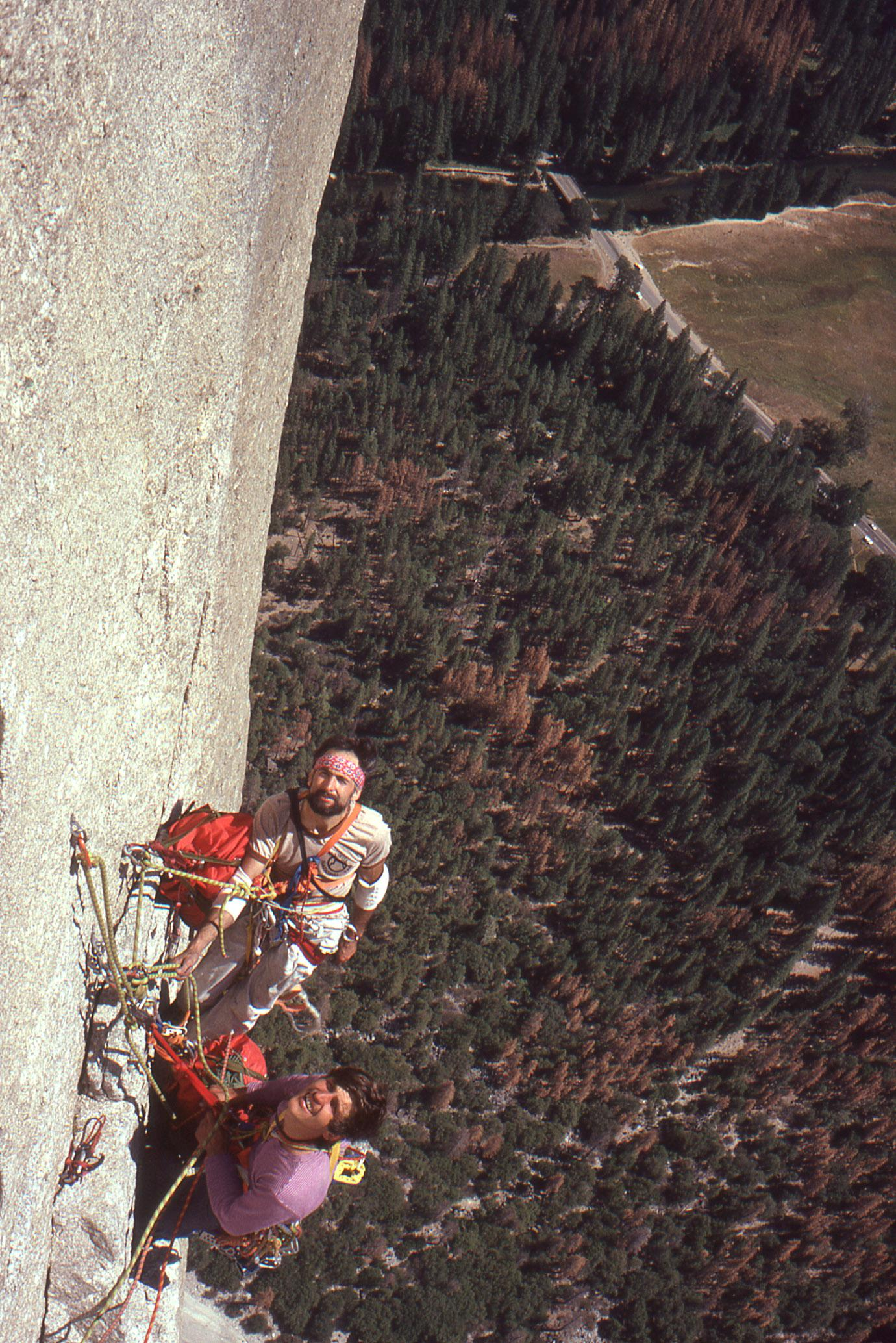 Yosemite valley - Relay at the nose